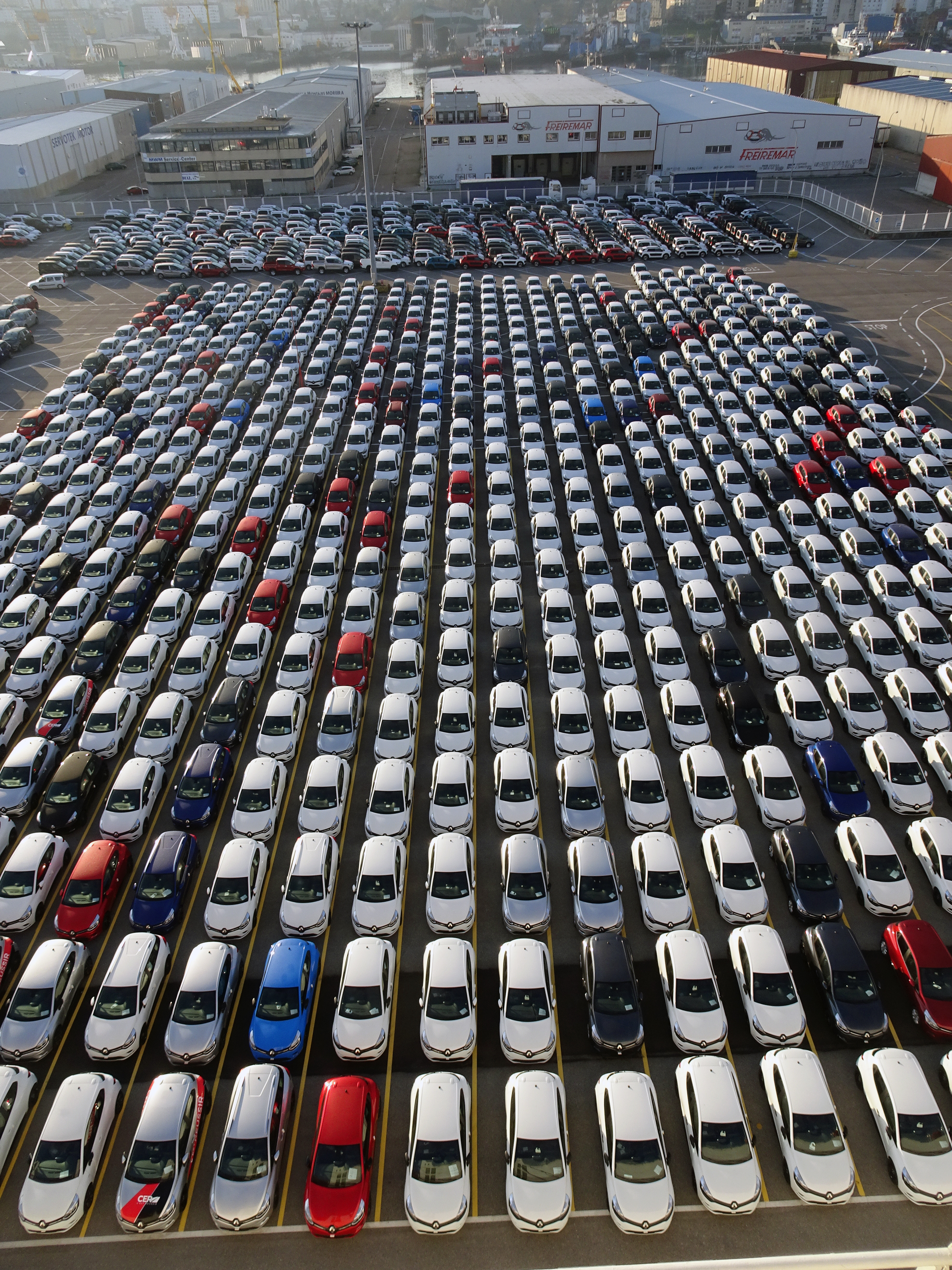 Cars waiting for loading in the port of Vigo in Spain